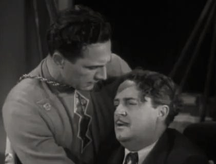 Tom Tyler (left) & Bryant Washburn in Adventures of Captain Marvel, Chapter 3 Time Bomb - cropped screenshot